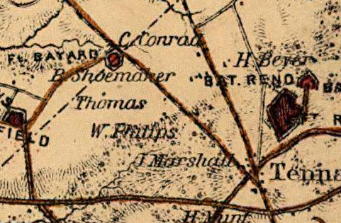 Closeup of 1865 U.S. War Department map of the Civil War defenses of Washington, D.C.